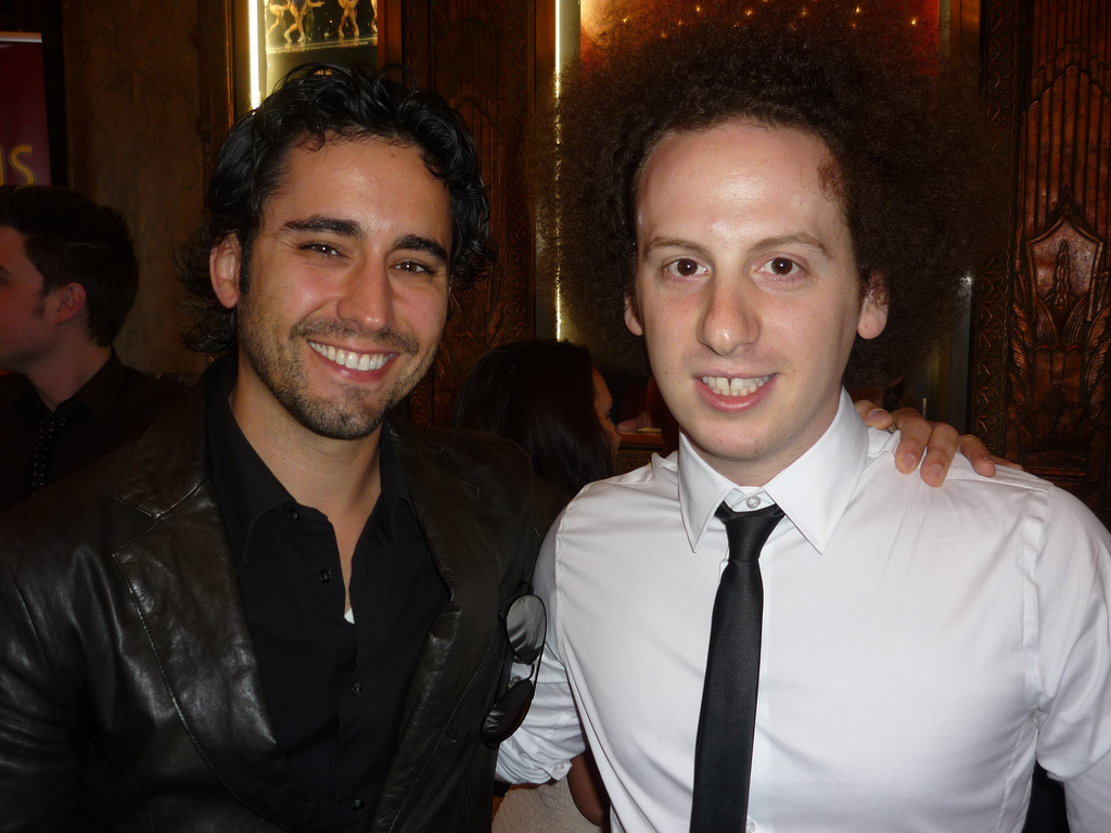 John Lloyd Young and Josh Sussman